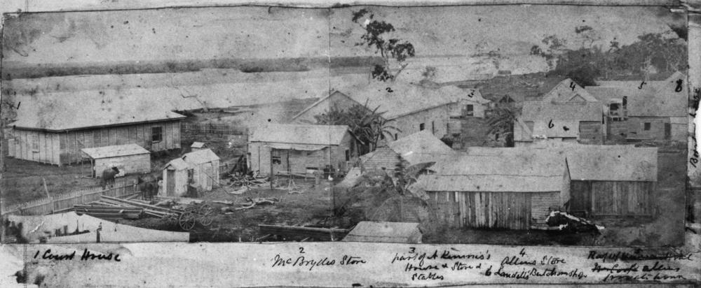 Business district of Mackay, 1868. Wooden structures make up the settlement of Mackay. The Court House is on the left and a butcher shop, general store and stables are toward the right. Several outhouses can be seen and washing is hanging on the bottom left corner. There is a wagon amid the timber in the back yard.